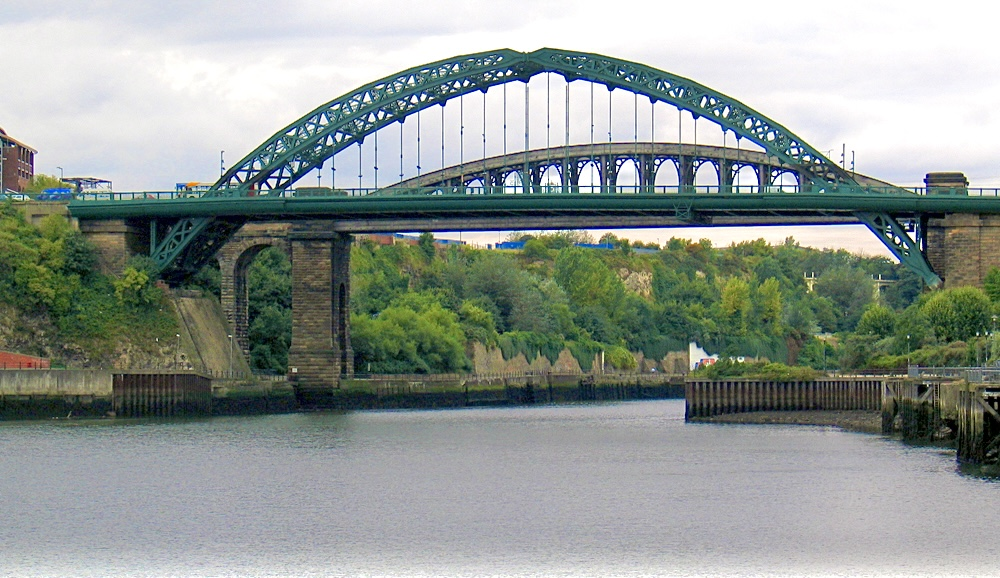 Wearmouth Bridge, across the River Wear in Sunderland, England. Photographed by John-Paul Stephenson on 8 September 2005.